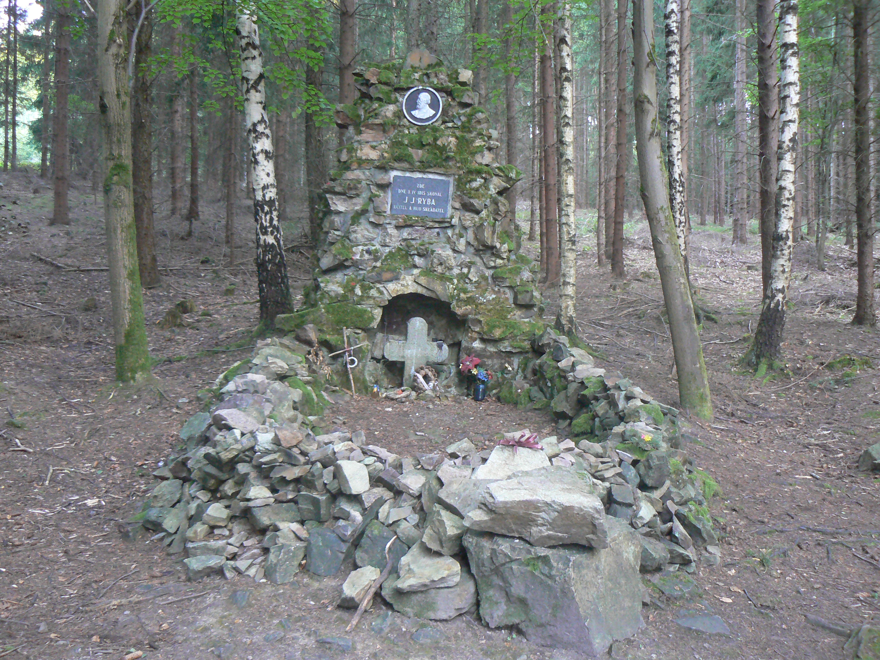 Jakub Jan Ryba's monument near Voltuš, Příbram District, Czech Republic